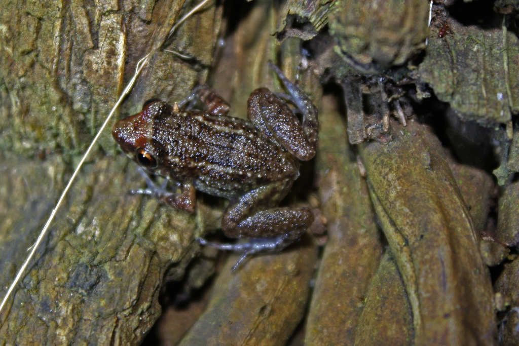 Found next to a small village pond. If you're in Playa Maguana and Carlos invites you for dinner, I'd definitely recommend it, great food, lovely relaxed family and we found 3 species of frog in and around his house. Guantanamo province.